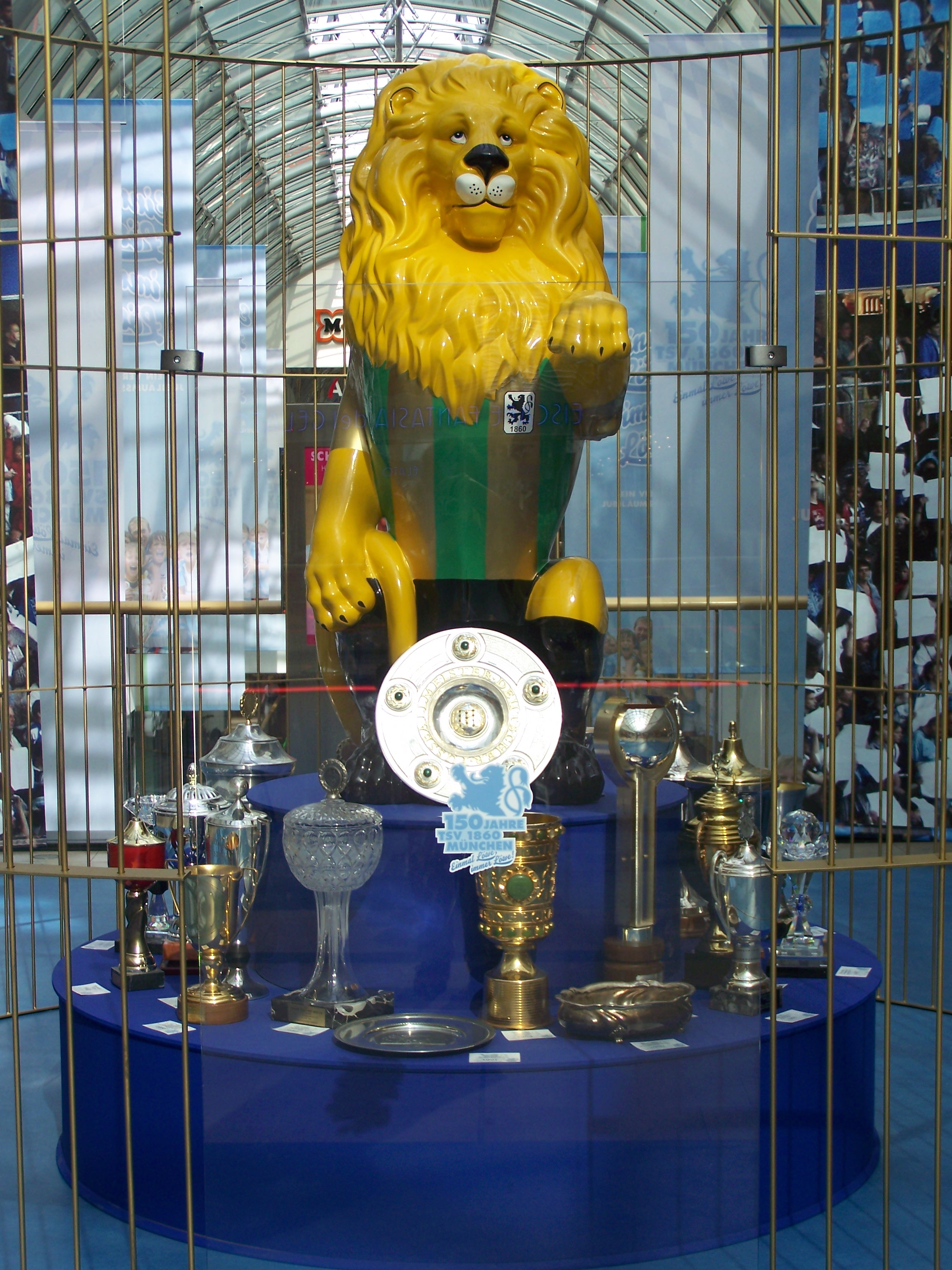 trophys won by TSV 1860 München